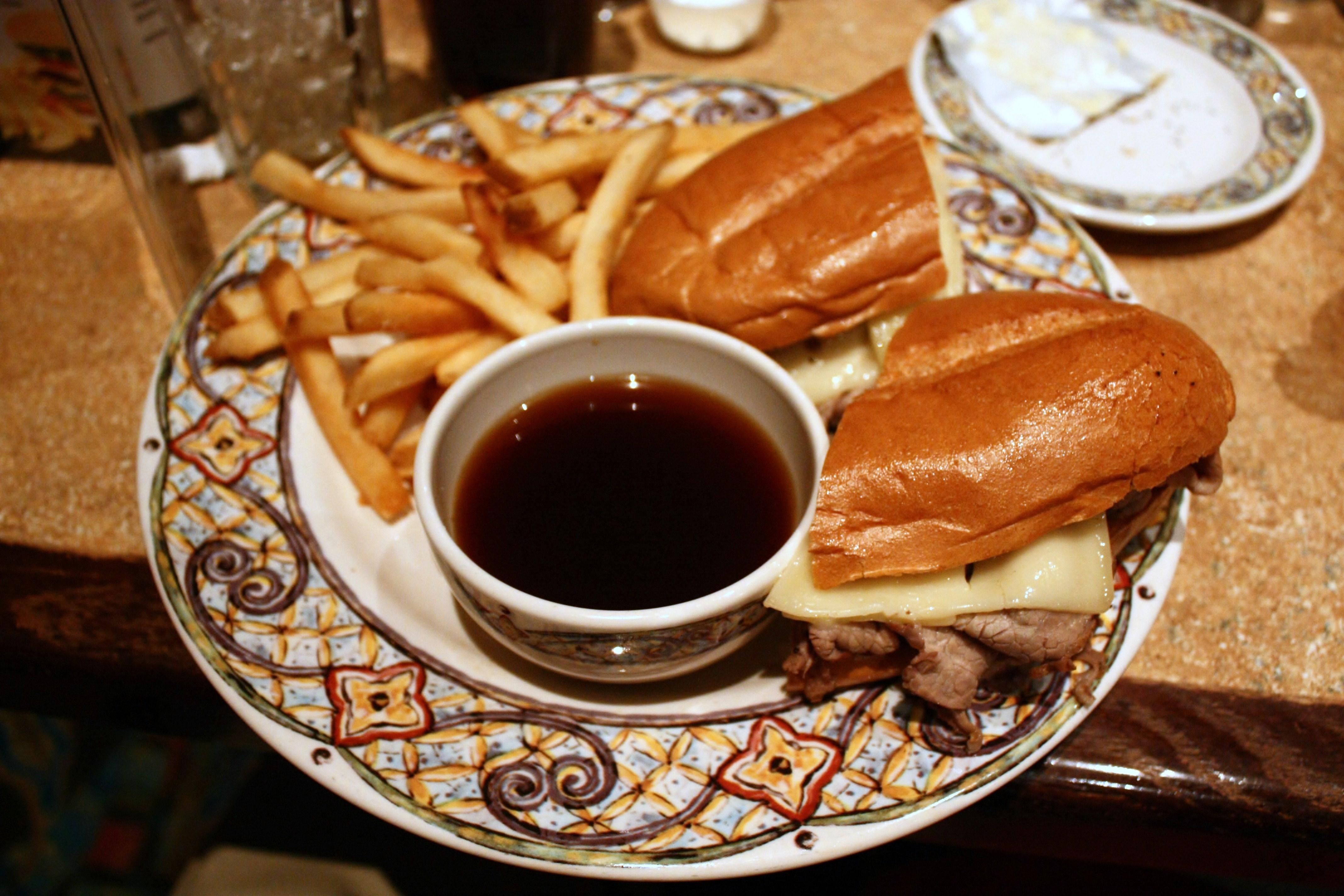 French dip beef sandwich, with bowl of "jus" for dipping. "Au jus" is French for "with [its own] juice"; "jus" is the juice itself. In American cuisine, the term is mostly used to refer to a light sauce for beef recipes, which may be served with the food or placed on the side for dipping. In French cuisine, "jus" is a natural way to enhance the flavour of dishes, mainly chicken, veal and lamb.